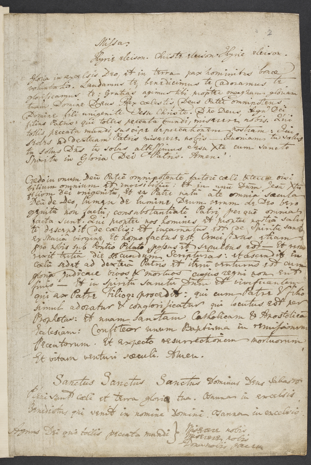 Missa de Spiritu Sancto. In the composer's hand.